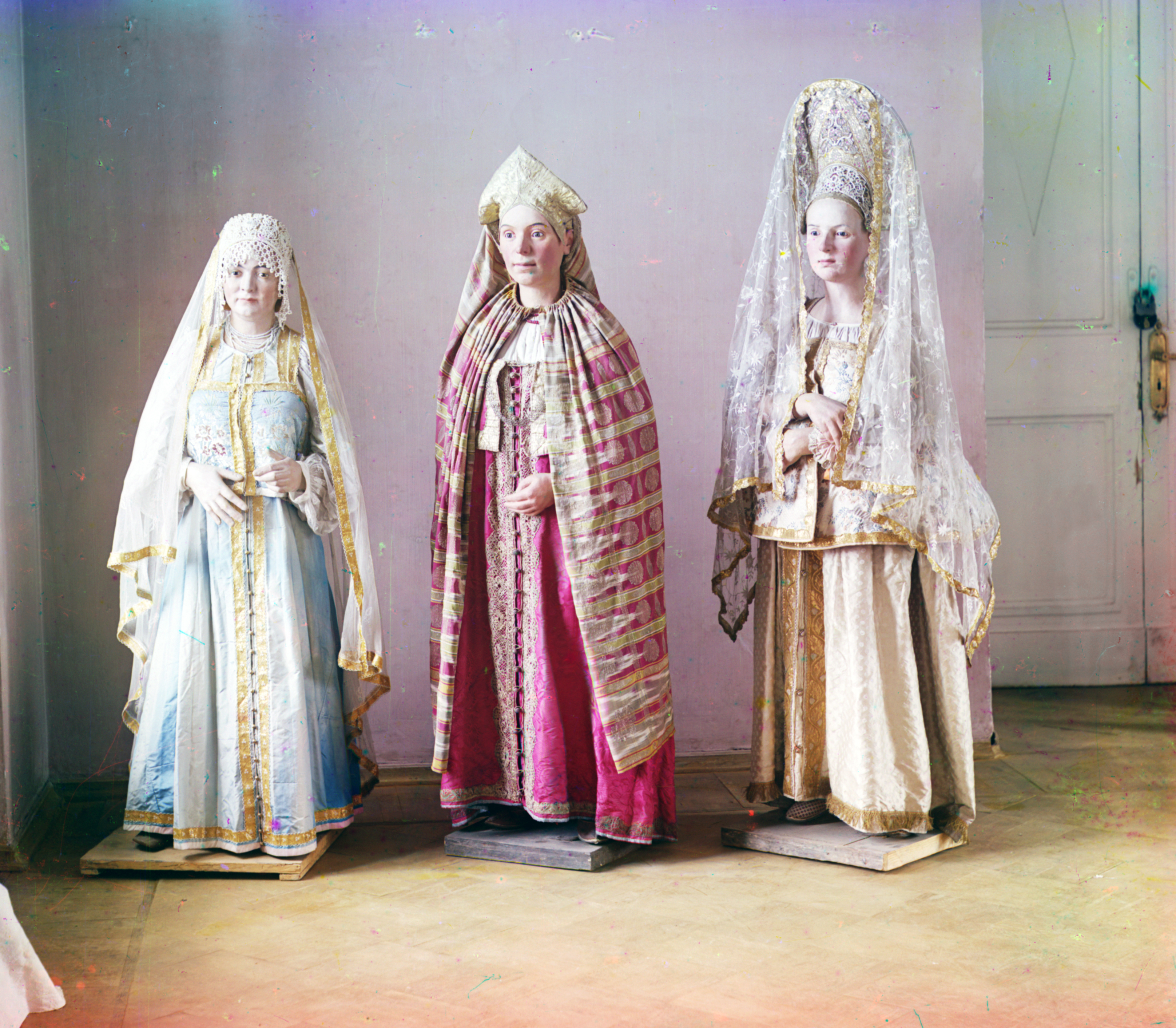 Three mannequins of women in elaborate dress, on wooden stands